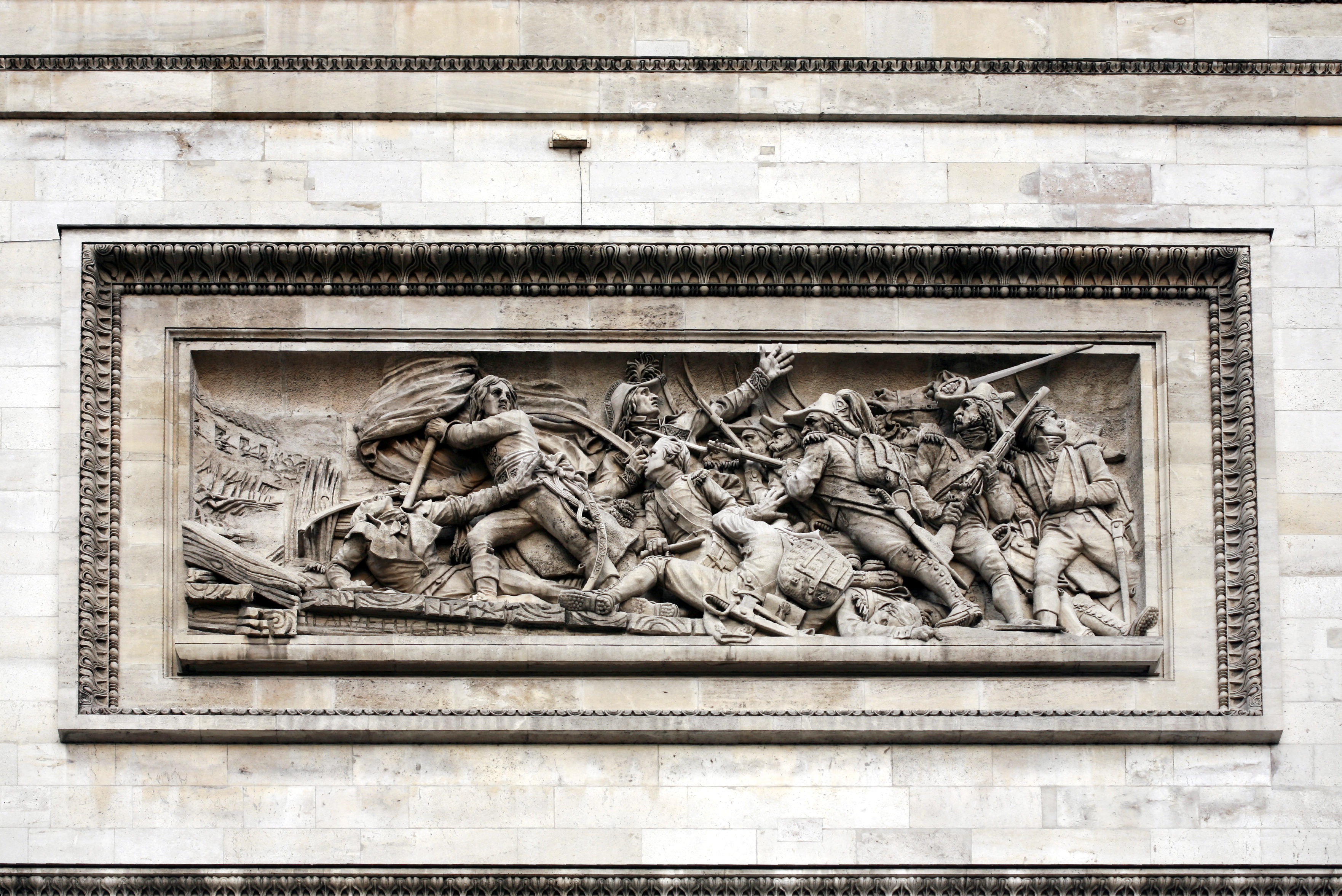 details of the Arc de Triomphe